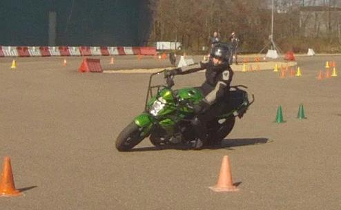 Nikki van der Spek tijdens kampioenschap motorbehendigheid 2012